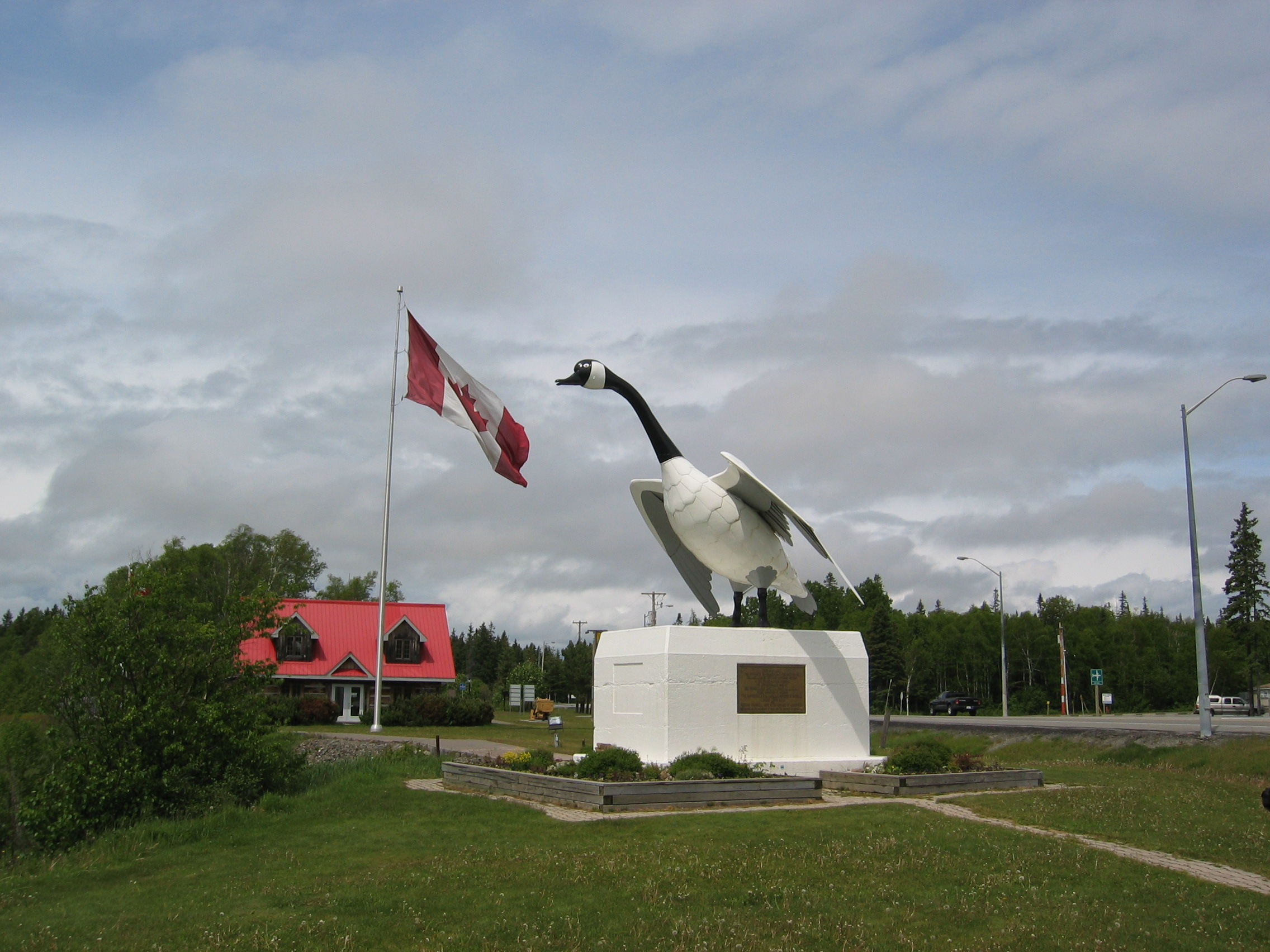 The giant Canada Goose roadside attraction outside Wawa, Ontario in June 2004